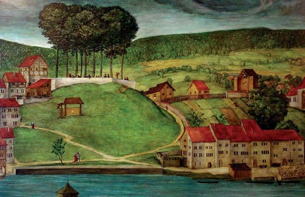 Detail of the remainings of the original altarpiece from the shrine of Felix and Regula in the Grossmünster showing parts of the Schipfe quarter and Lindenhof holl in Zurich, Hans Leu der Ältere.